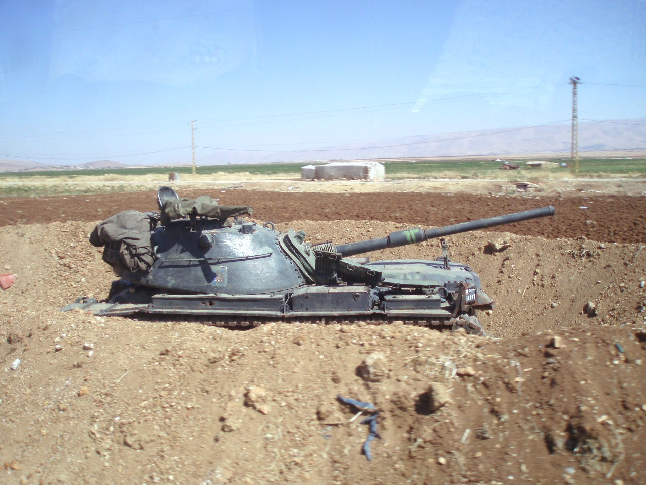 Tank of the Lebanese Army.